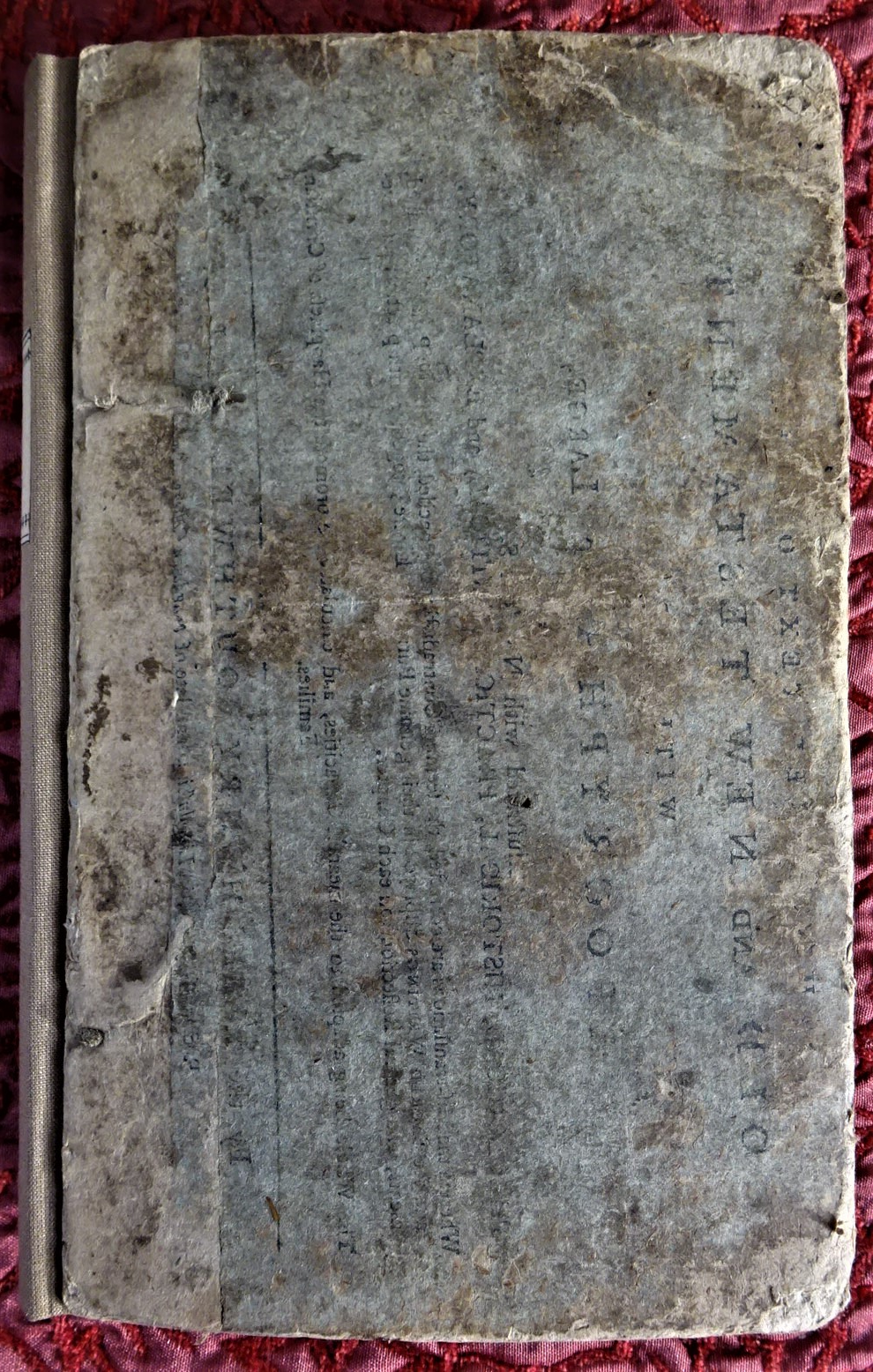 A very rare uncut example of Robert Burns Edinburgh Edition of 1787 in its original printer's boards of wastage from a New Testament publication as issued by William Smellie and therefore never leather bound. The 1786 Kilmarnock Edition was bound in blue paper wrappers.